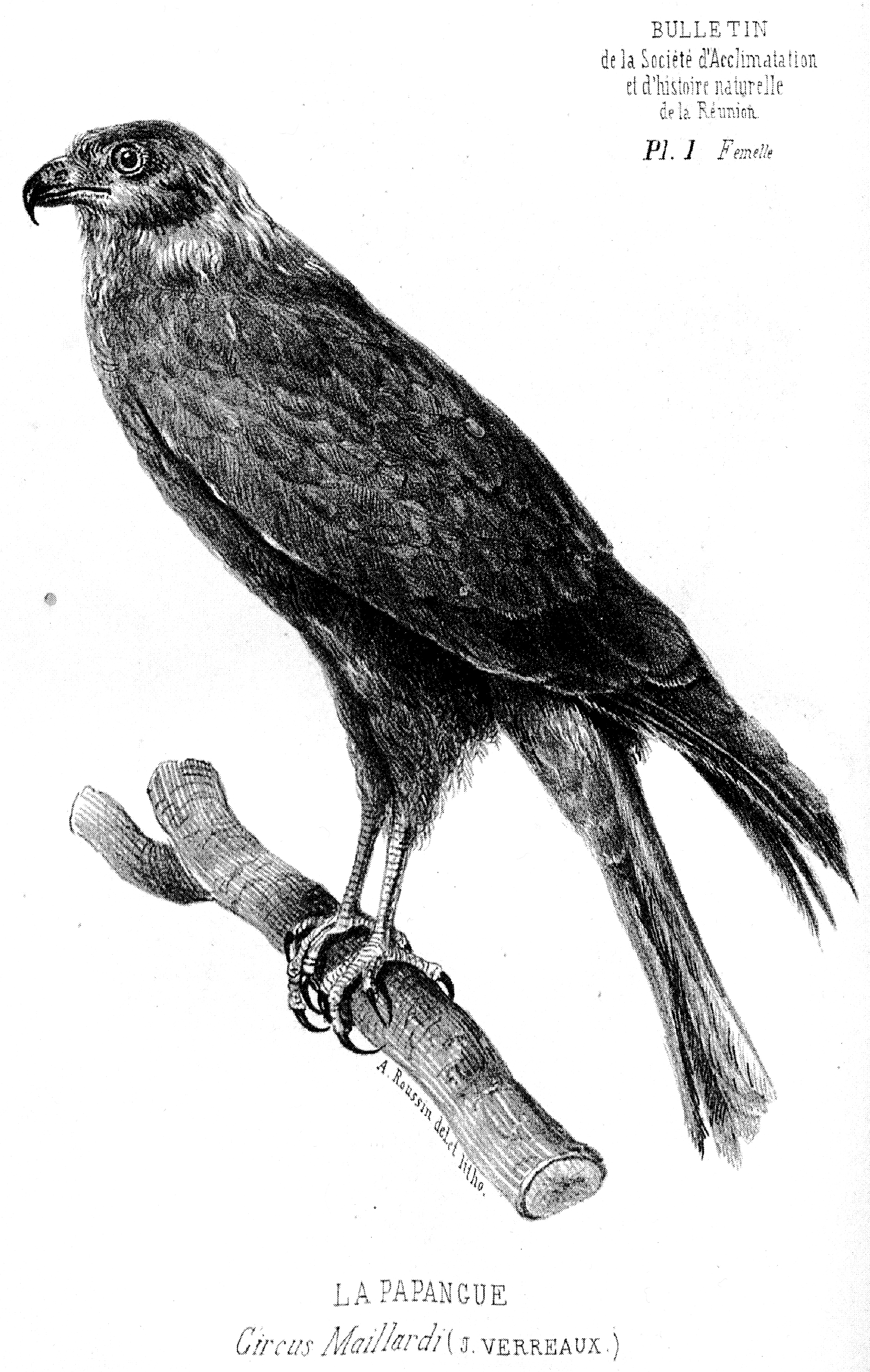 Drawing of a female Réunion Harrier (circus maillardi)